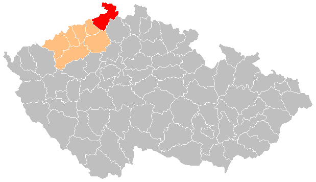 District of Děčín